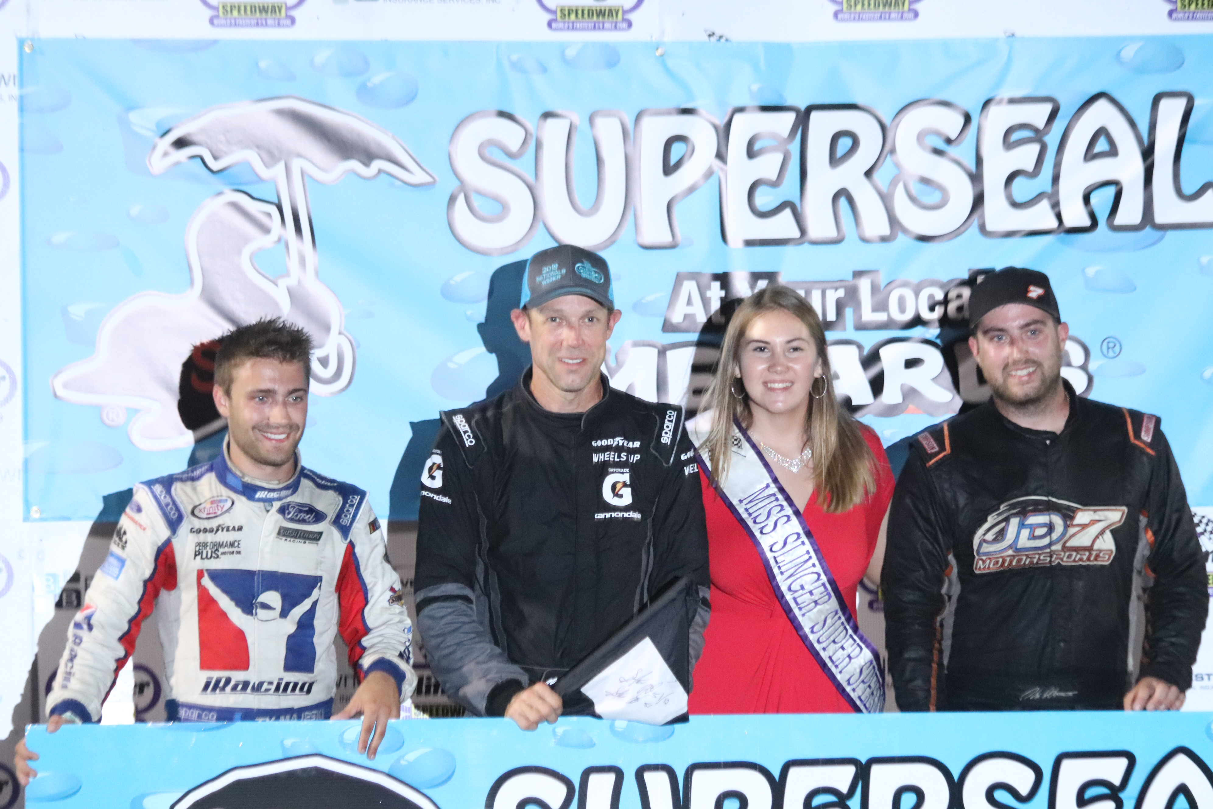 The top three (podium) finishers at the 2019 Slinger Nationals (from left) 2nd place Ty Majeski, winner Matt Kenseth, Miss Slinger, and 3rd place John DeAngelis.